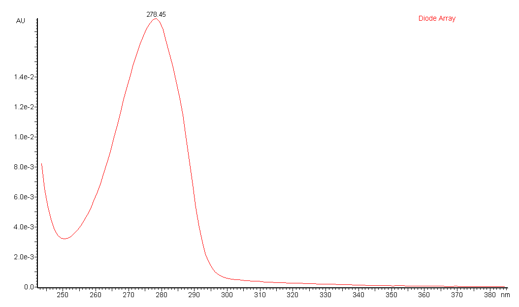 UV visible spectrum of catechin